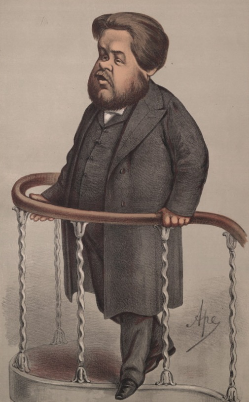 Caricature of Charles Spurgeon. Caption reads "Noone has succeeded like him in sketching the comic side of repentance and regeneration".